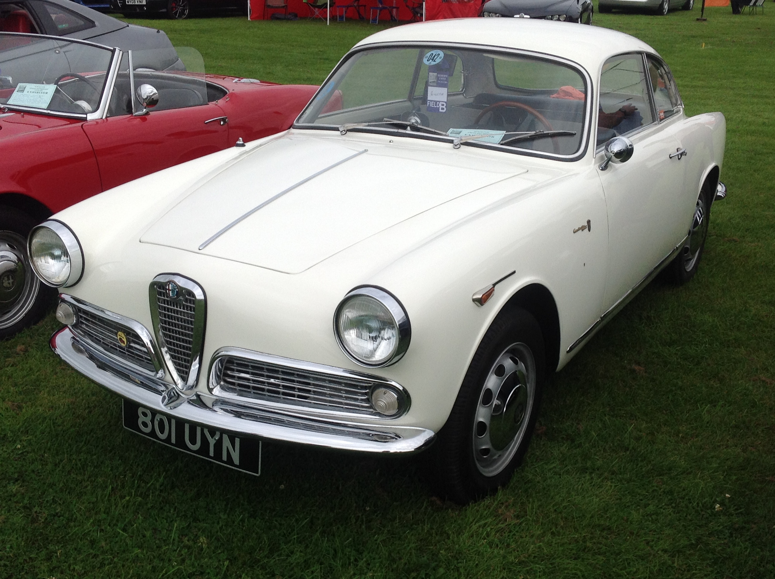 Classics at the Castle, Sherborne, Dorset